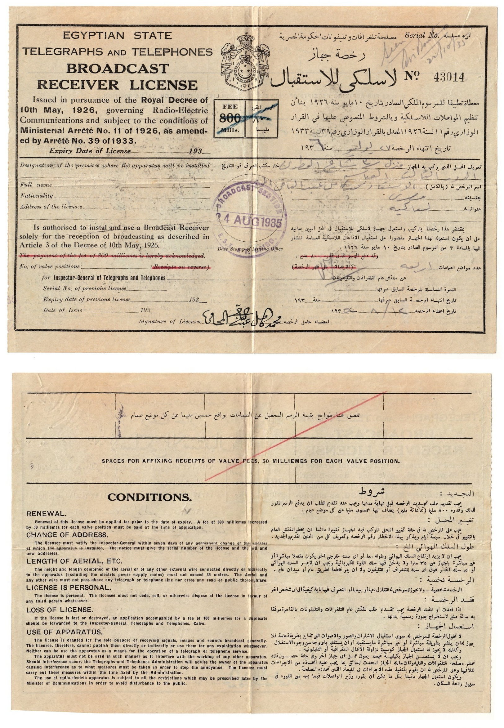 Egypt broadcast receiver license 1935.